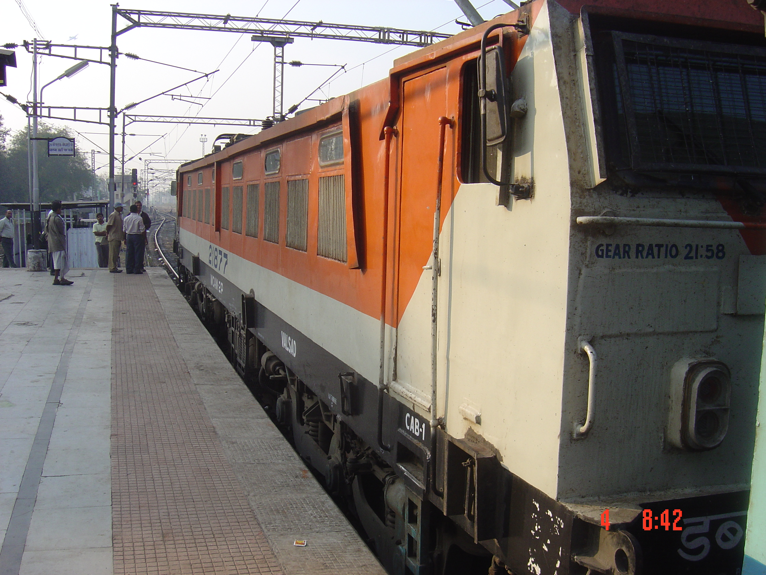 WCAM 2P engine at Vadodara Junction